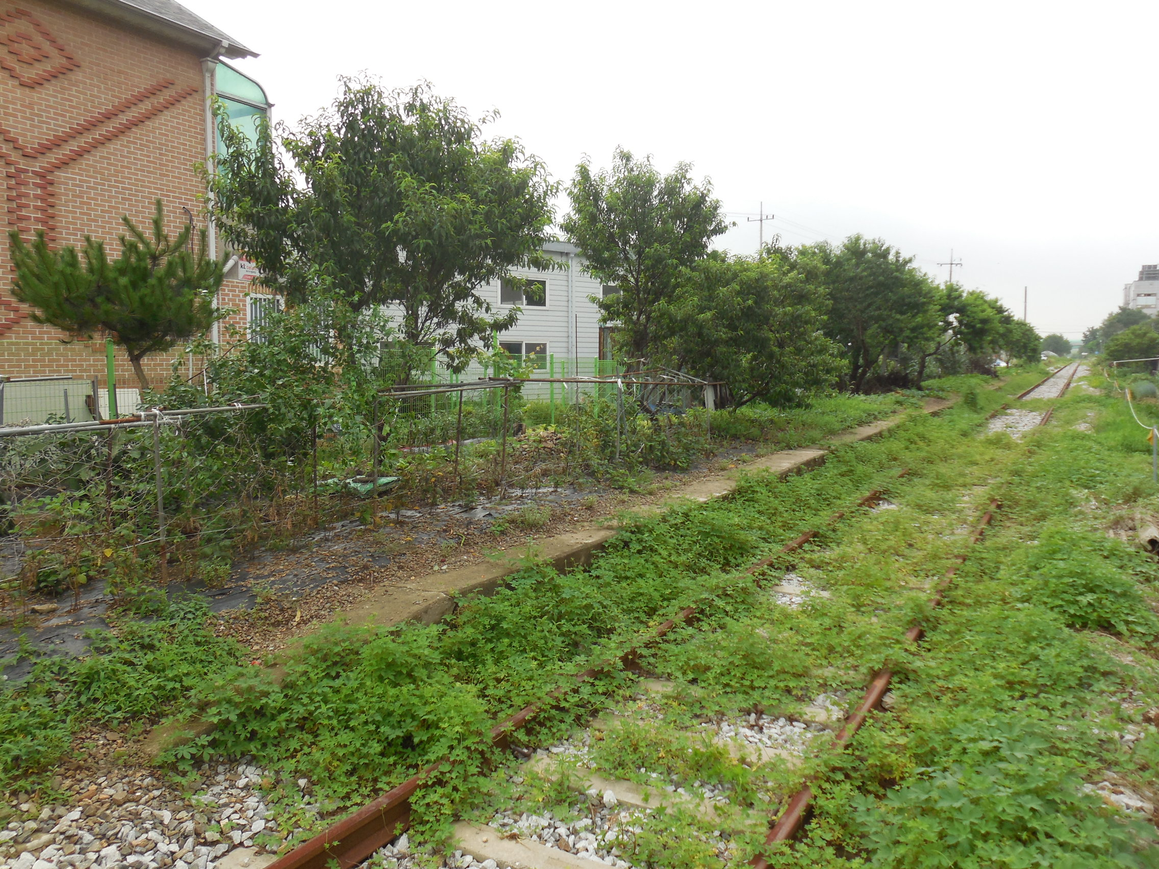 Korail Gyooe Line Samneung Station Platform.